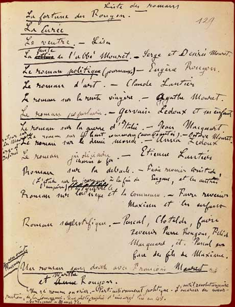 List of the seventeen novels. The first five novels of the serie are there (up to La Faute de l'abbé Mouret). However not all theses ideas will become real books in the end and others will be added to the list later on.